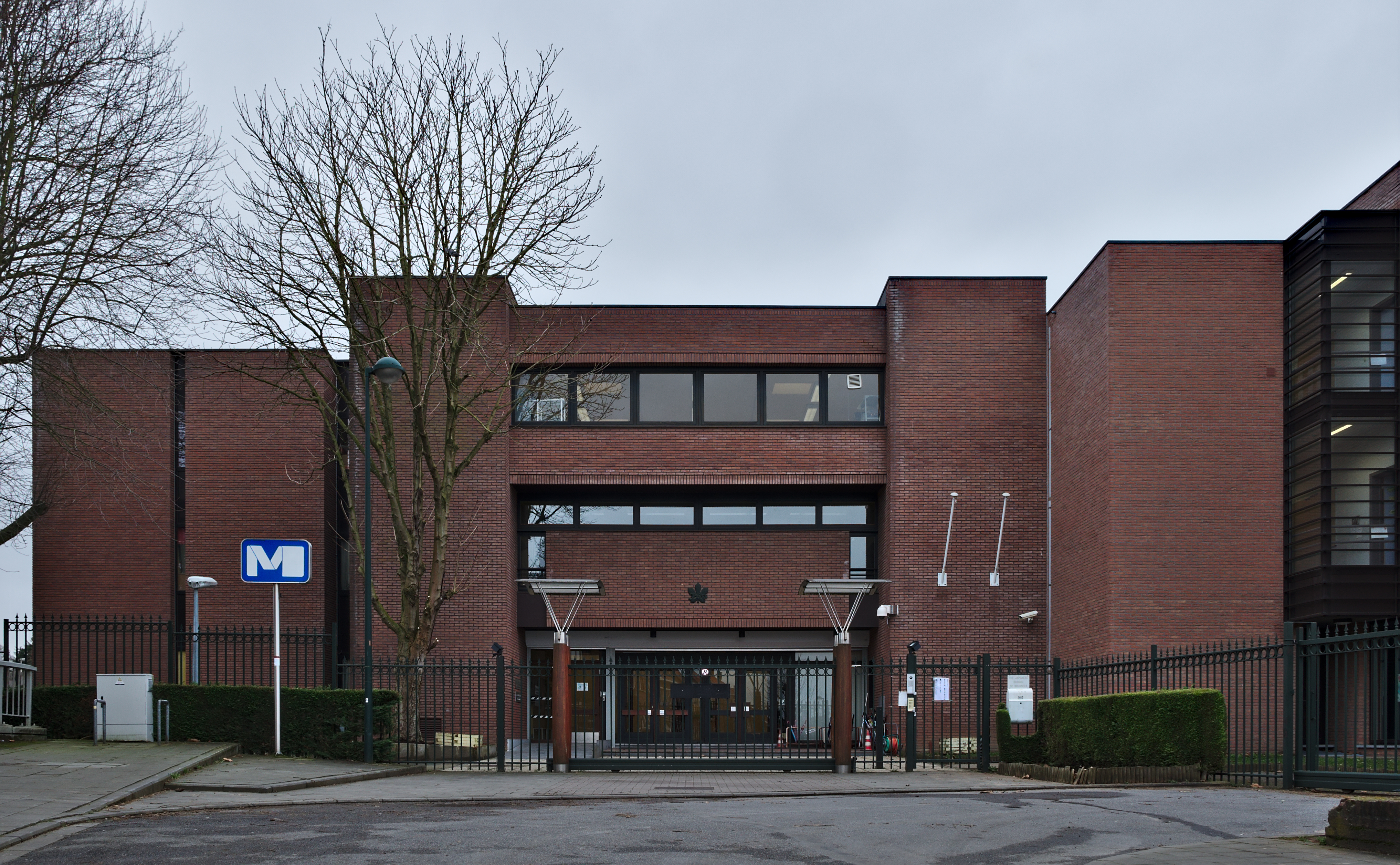 The Japanese School of Brussels entrance